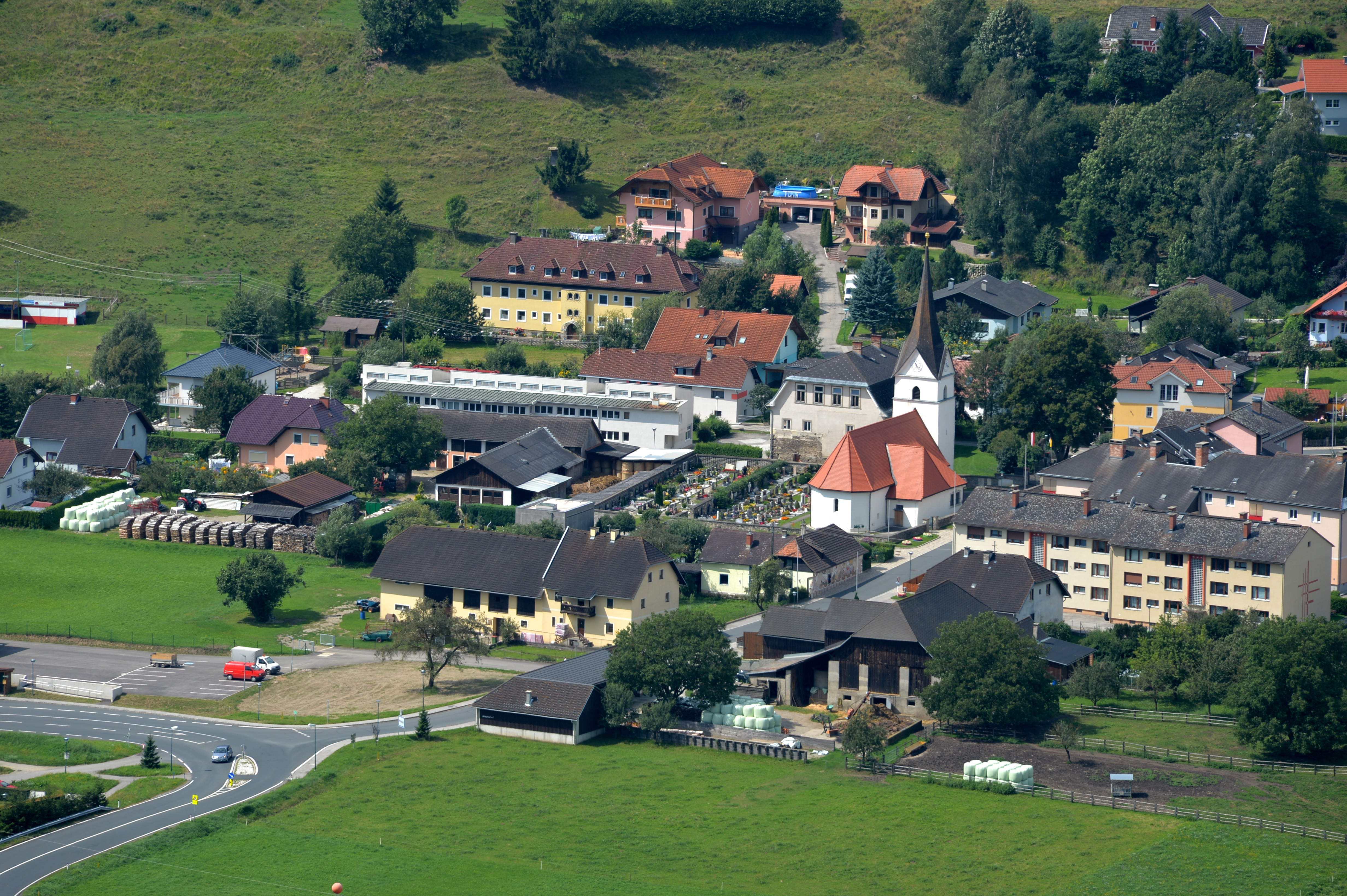 View from Lorenzenberg at Micheldorf, municipality Micheldorf, district Sankt Veit an der Glan, Carinthia, Austria, EU